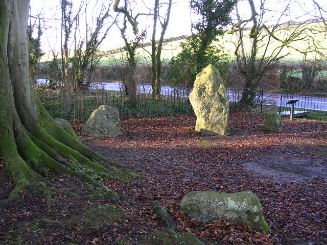 The Winterbourne Abbas Nine Stones. Looking northeast at the part of the stone circle, showing its proximity to the busy A35 trunk road. An English Heritage owned site that is not at all easy to visit.